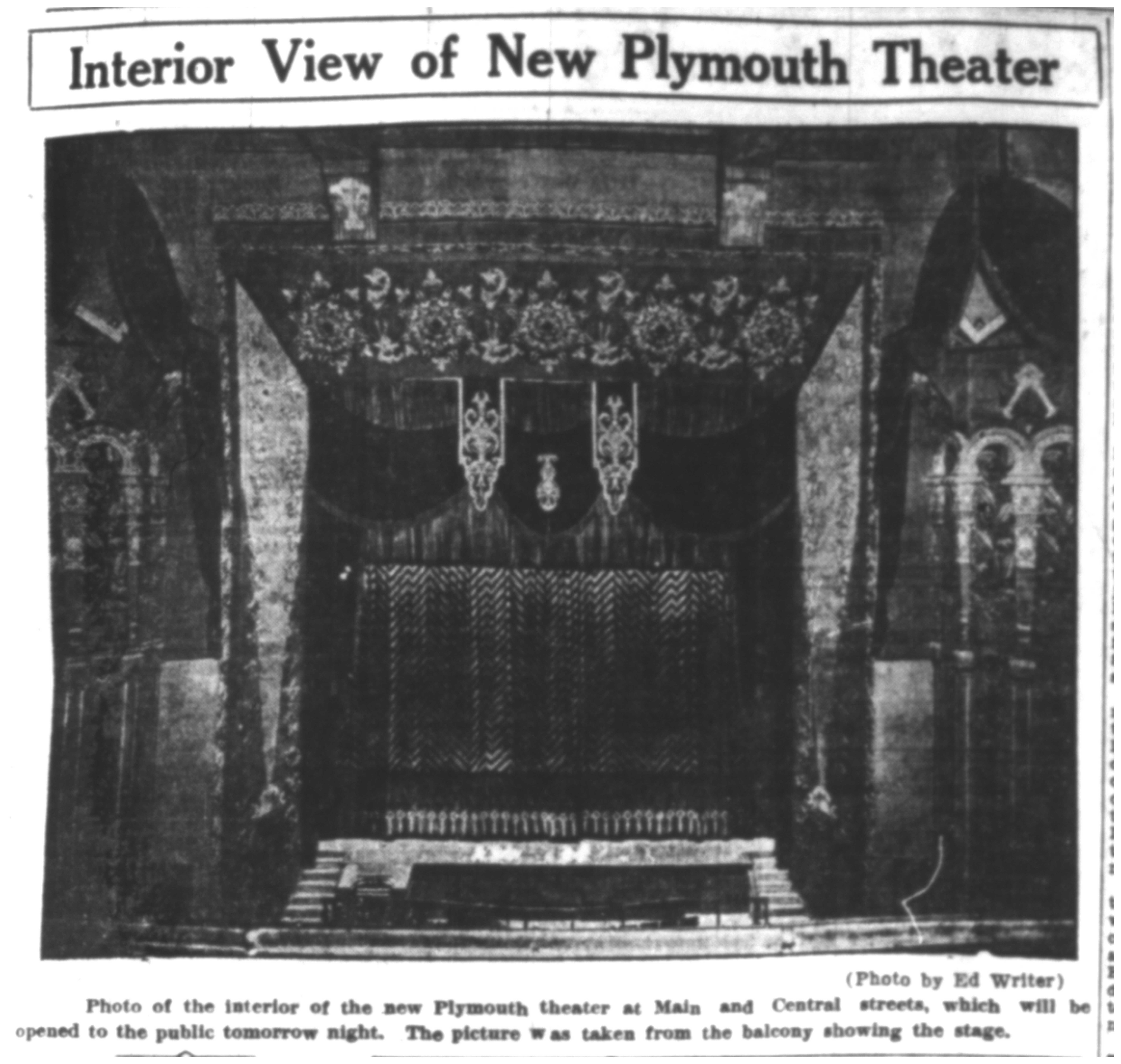 Interior View of New Plymouth Theater